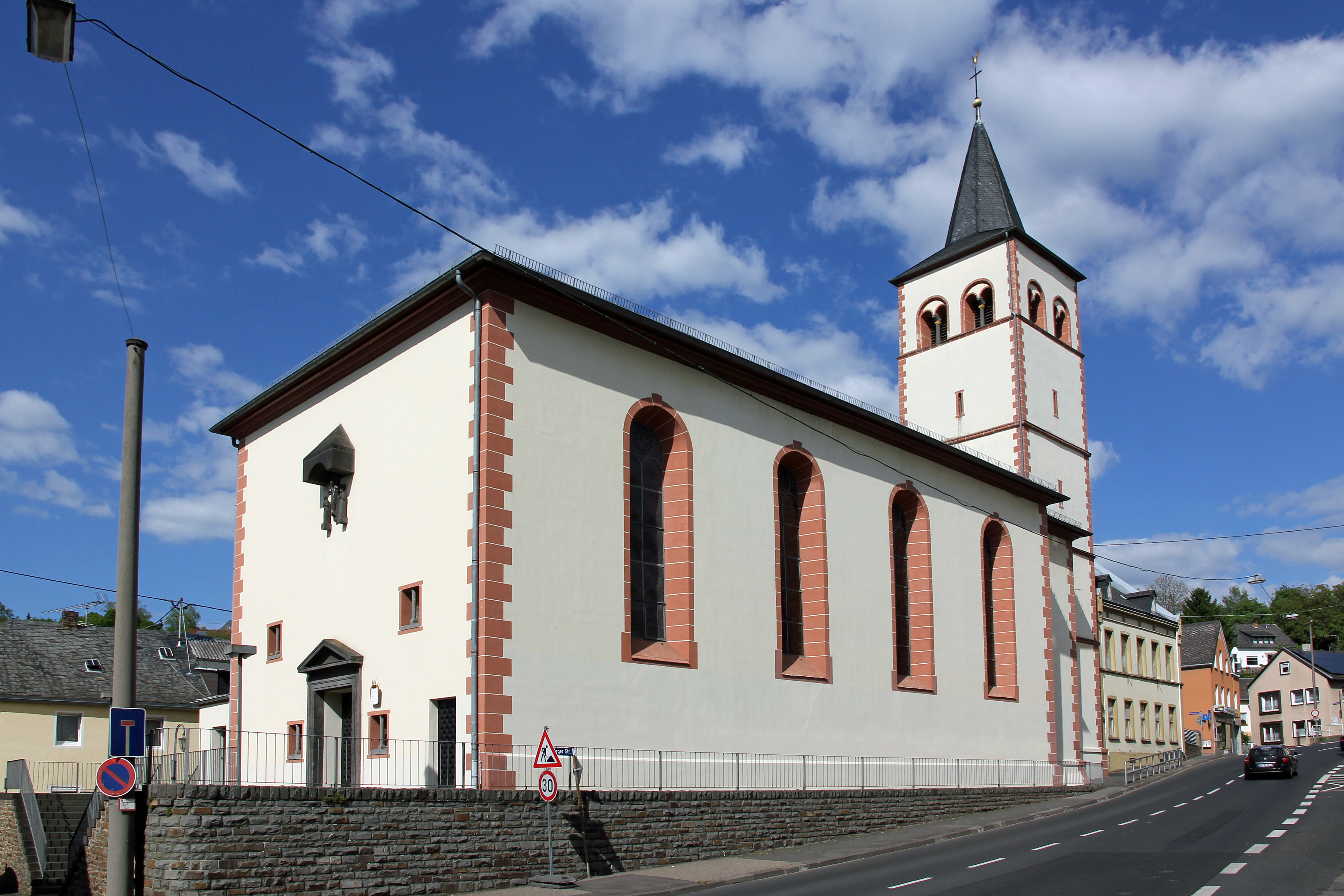 St. Pankratius church in Koblenz